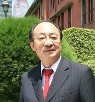 Ker Chien-ming (traditional